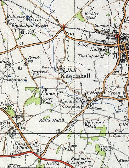 Map of Knodishall from the 1945 published by the Ordnance Survey